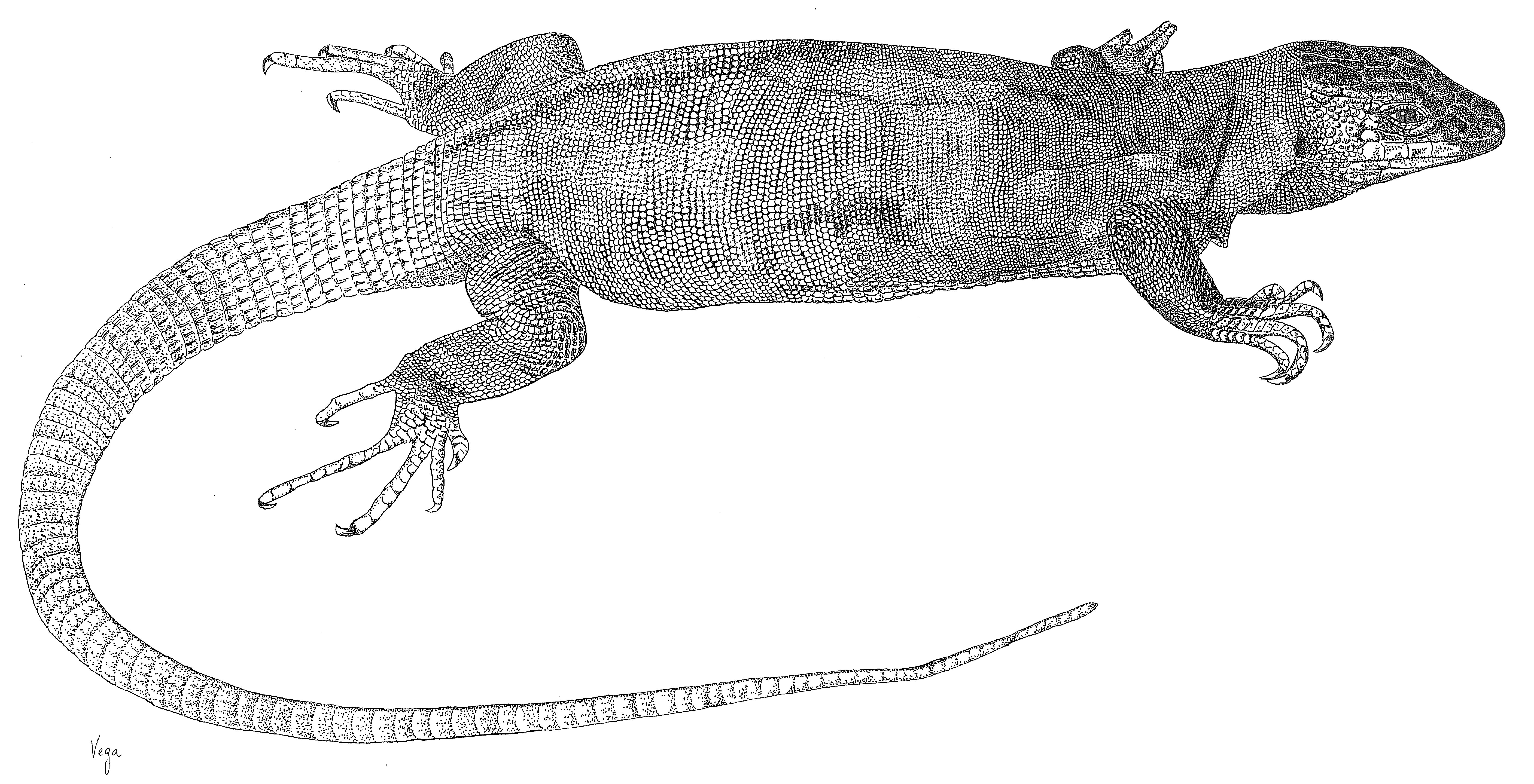 Gallotia Simonyi. Female. Hierro giant lizard. Scientific illustration. Pen.